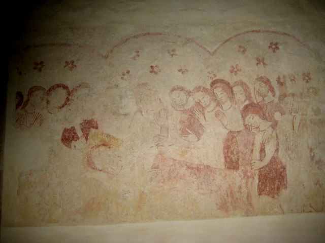 Medieval wall painting All Saints Church The painting depicts the death of the Virgin Mary.